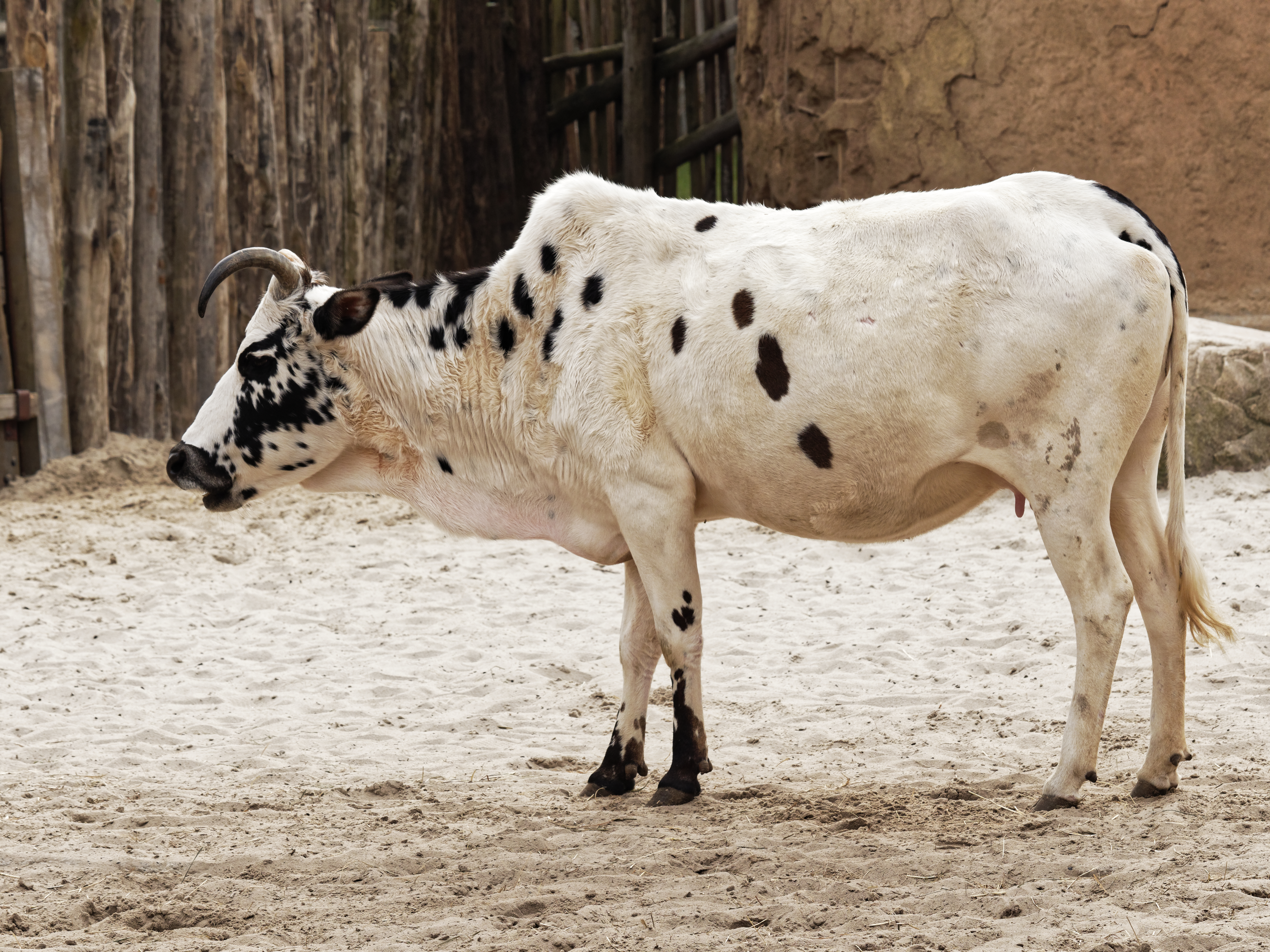 Bos taurus indicus (Zebu) in Wildlands Adventure Zoo